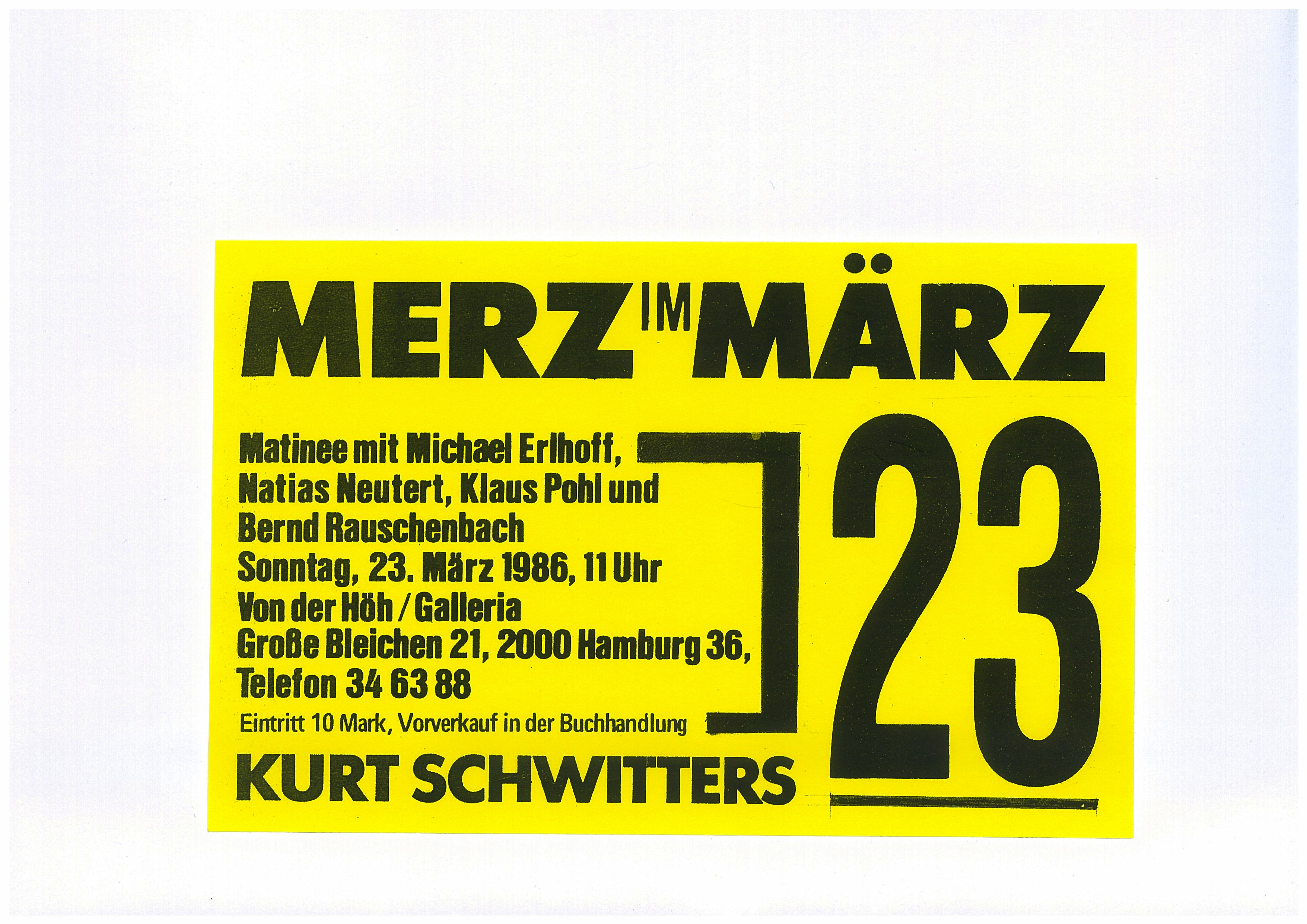 Flyer of MERZimMÄRZ, Matinee for Kurt Schwitters, 23.03.1986